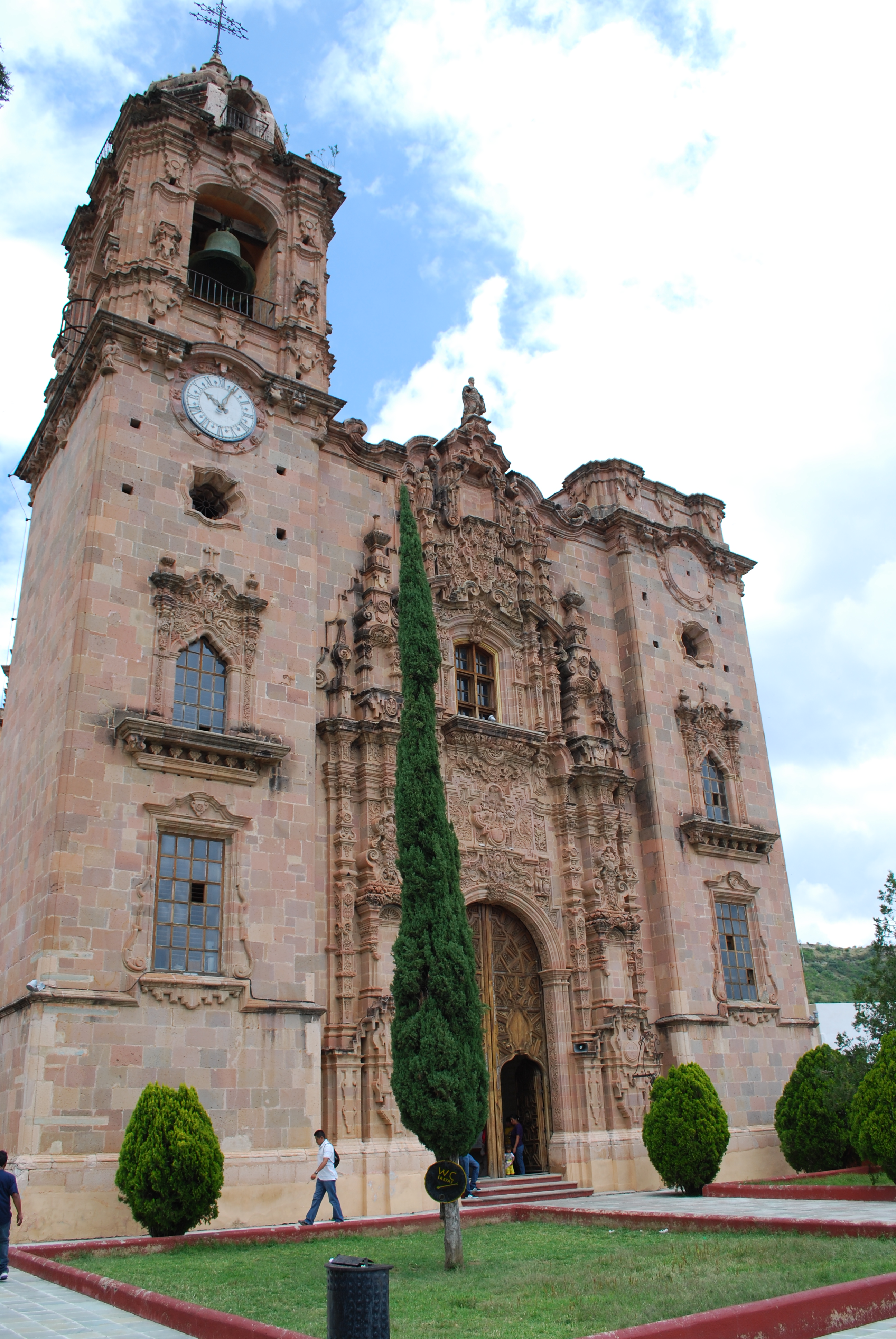 Facade of the Cayetano de Valenciana Church in Guanajuato, Mexico